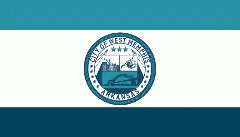 Wmsc33